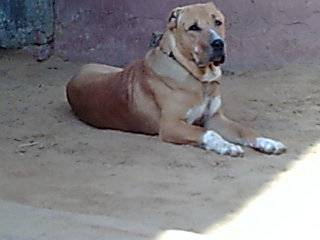 Indian Mastiff also called Bully Kutta